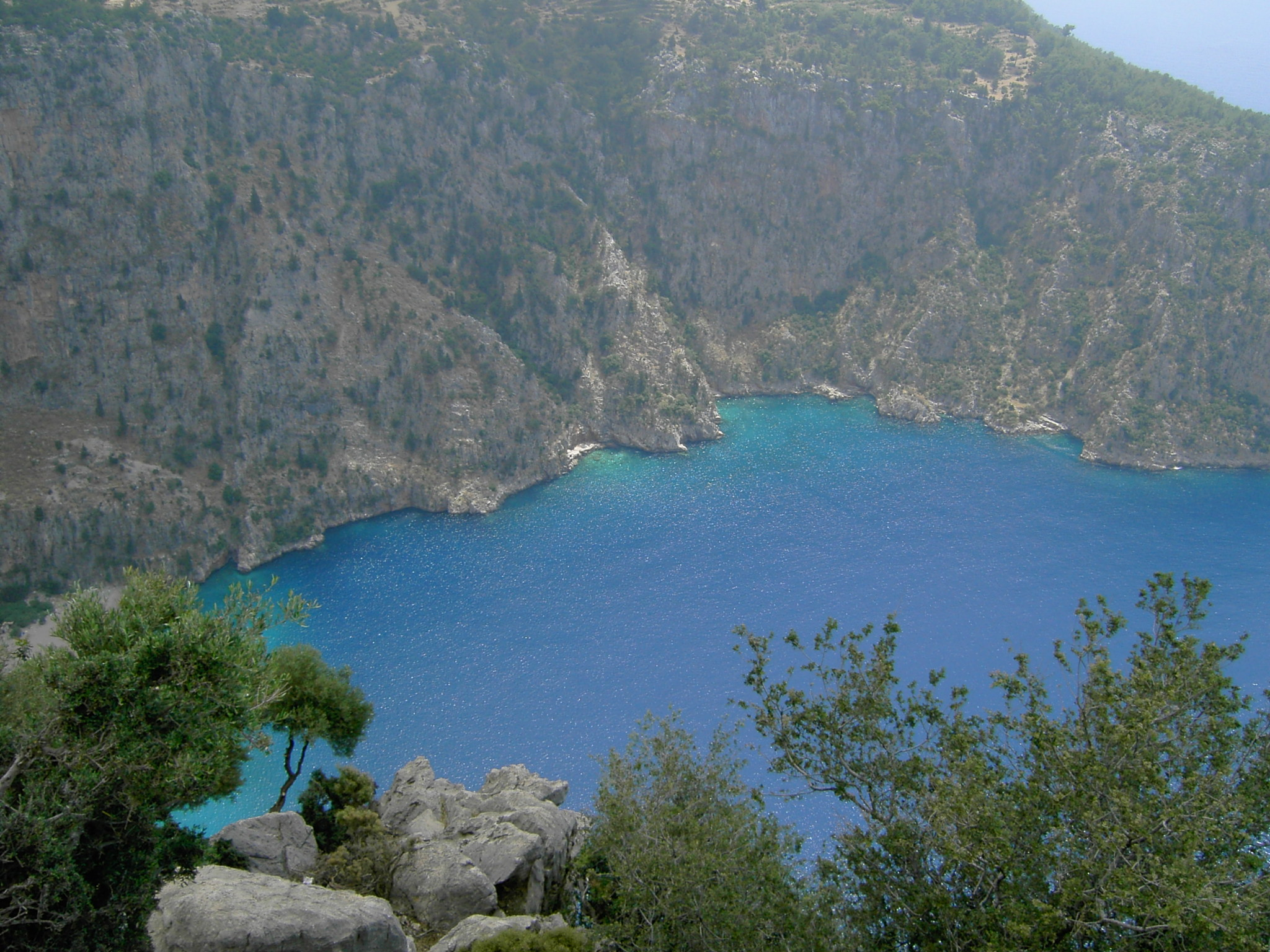 The Butterfly Valley Bay on the Lycian Way near Ölüdeniz is one of the most scenic places on earth